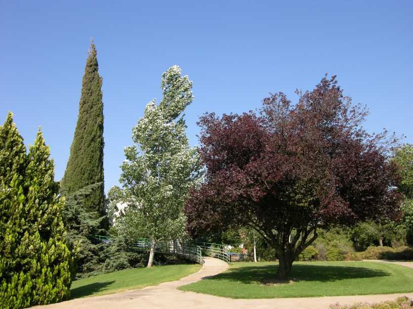 tree colors in Yiftah